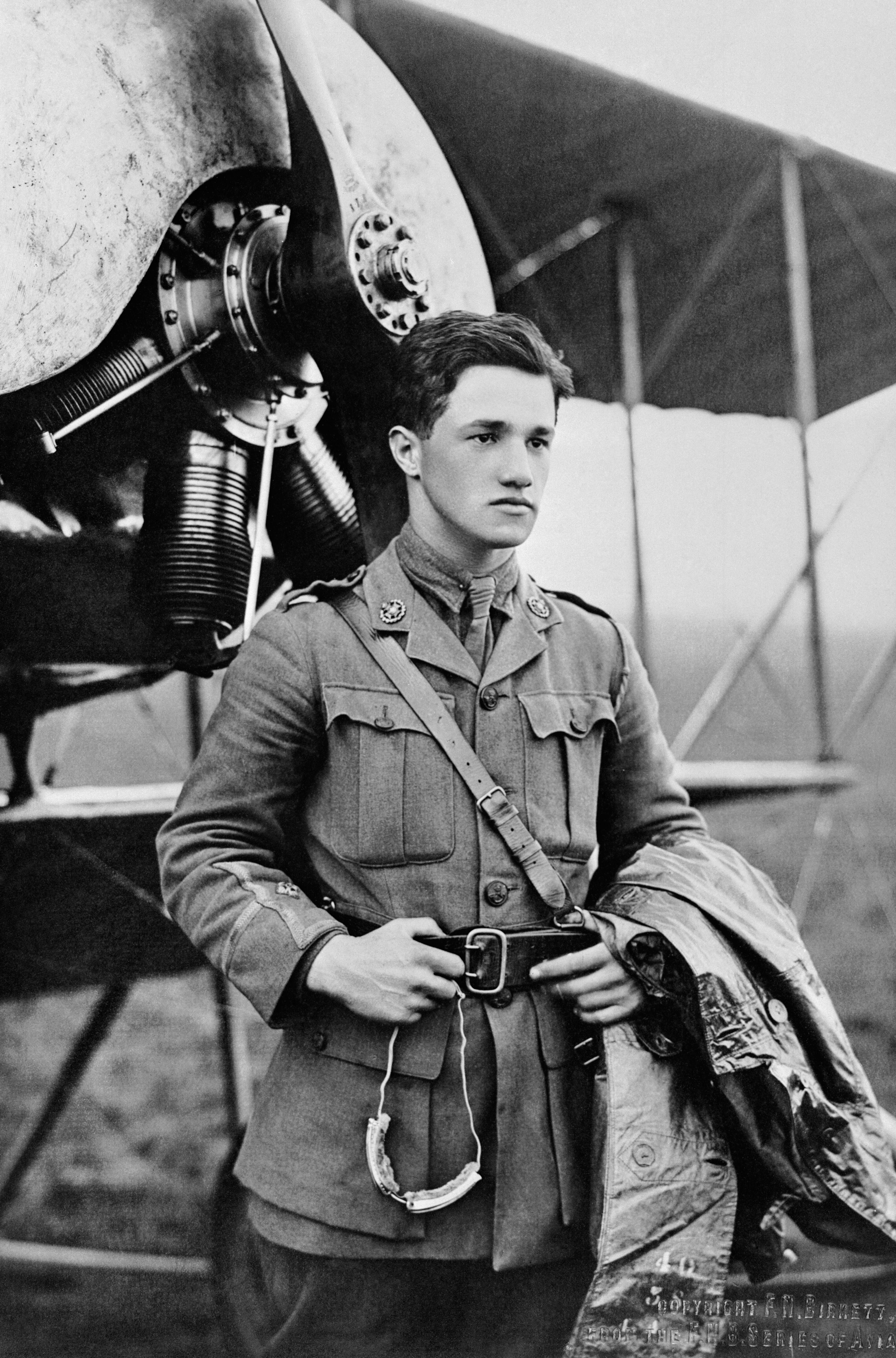 English World War I flying ace and Victoria Cross recipient Albert Ball